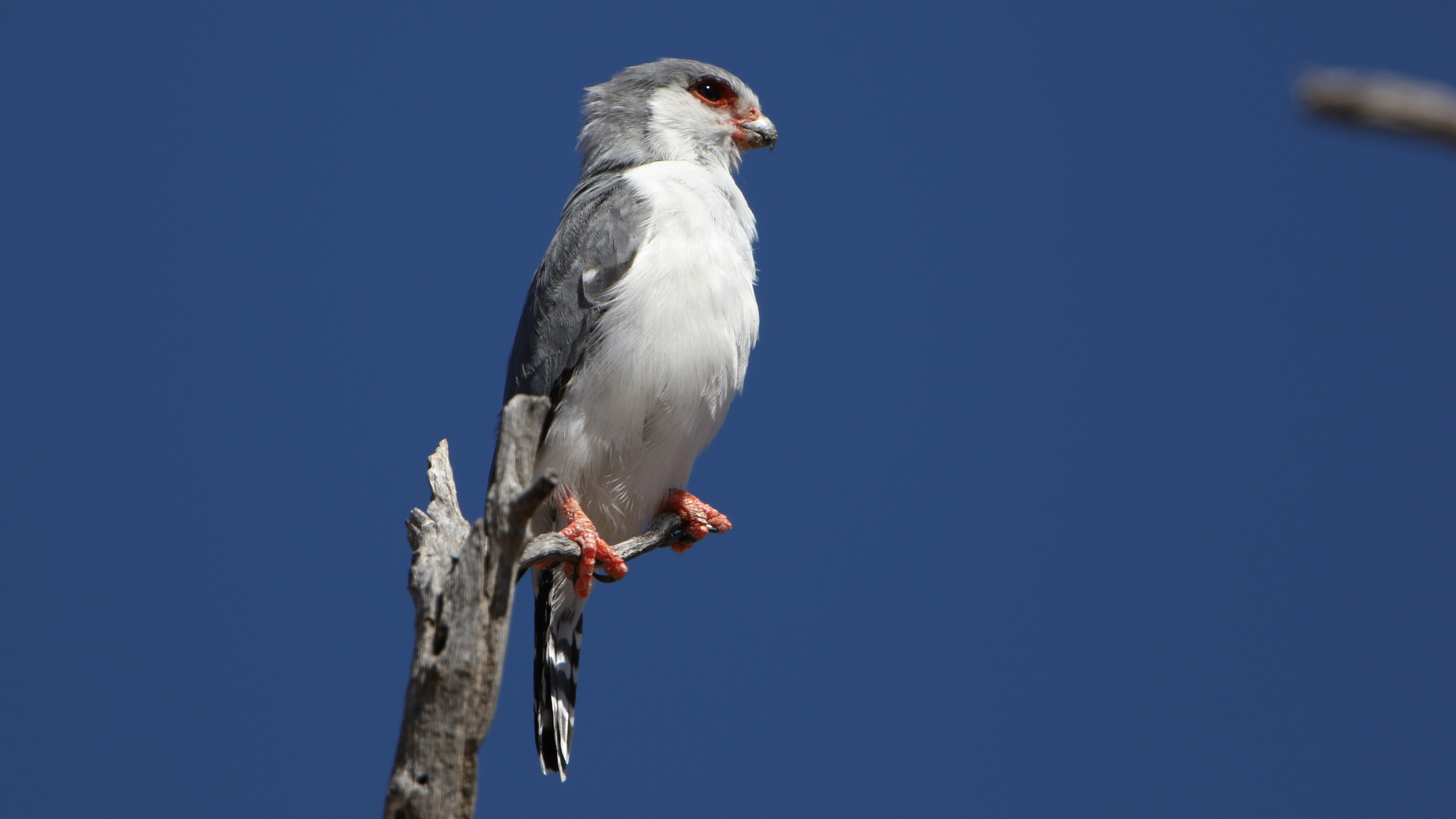 The female is the one with the reddish (rufous) back. The male is plainer.